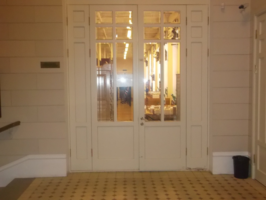 rgo_library